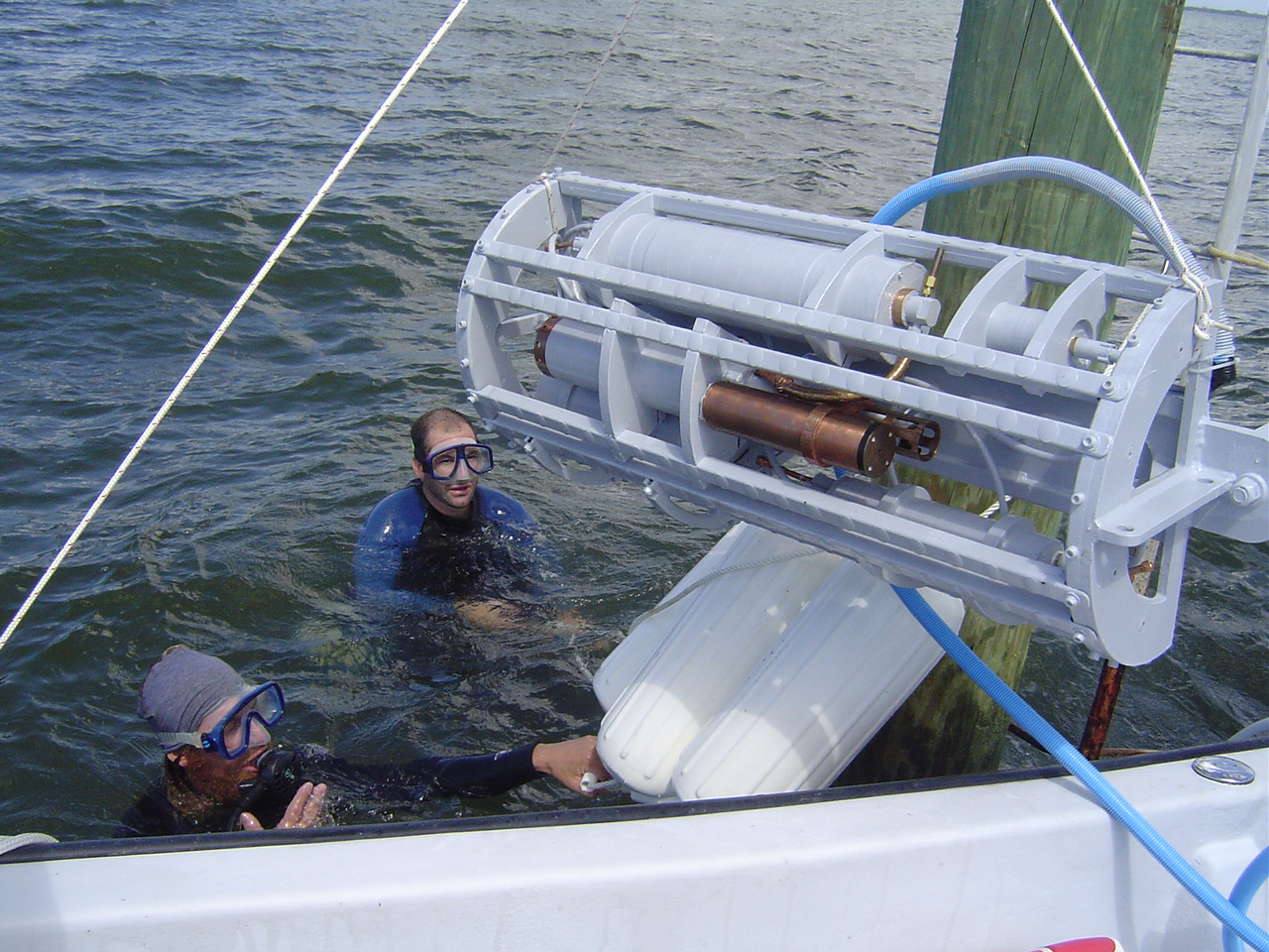 RECON instrument package treated with anti-fouling measures